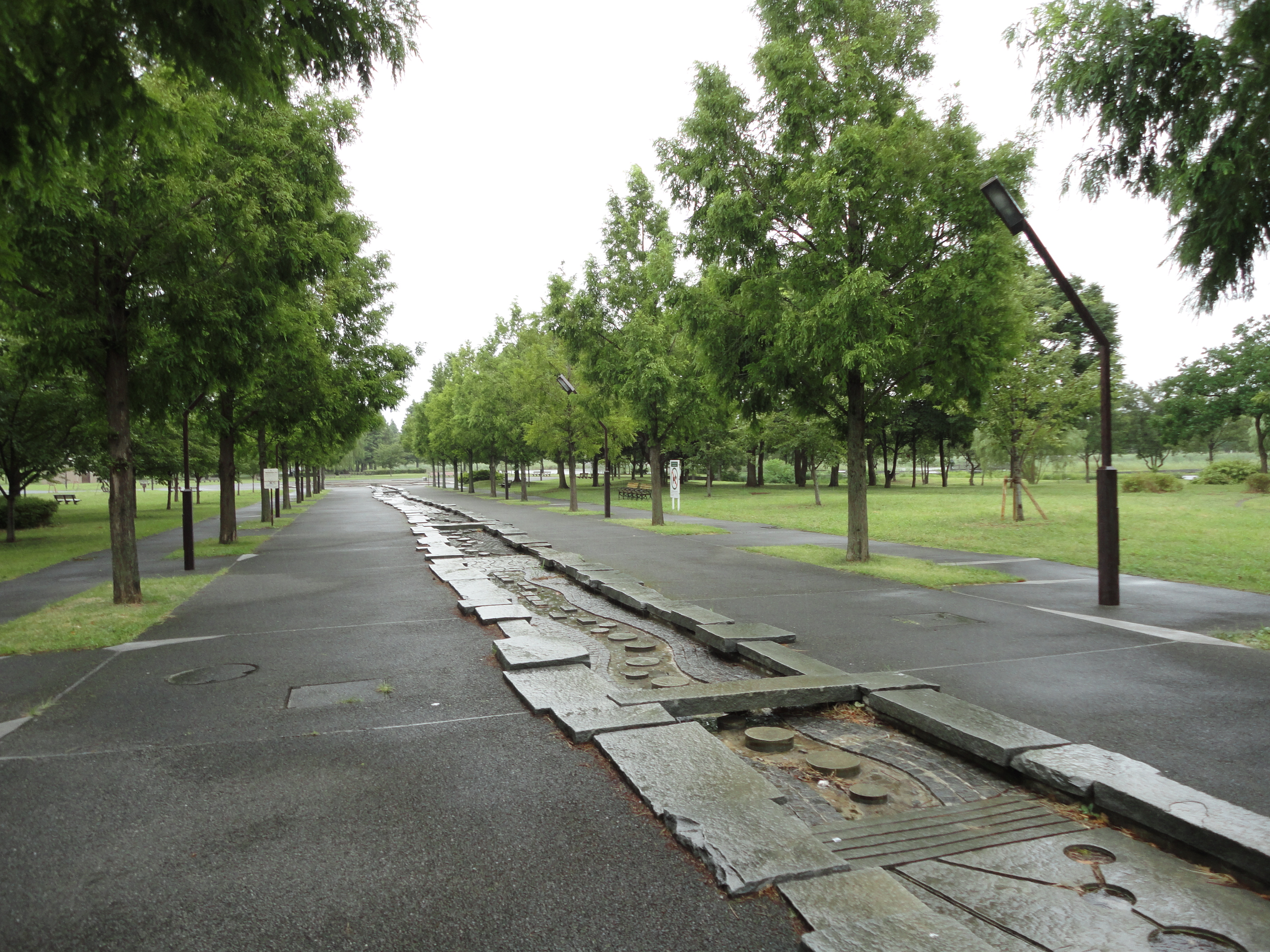 Toneri Park